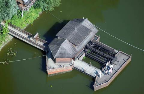 Kolárovo, Slovakia, shipmill, aerial photography